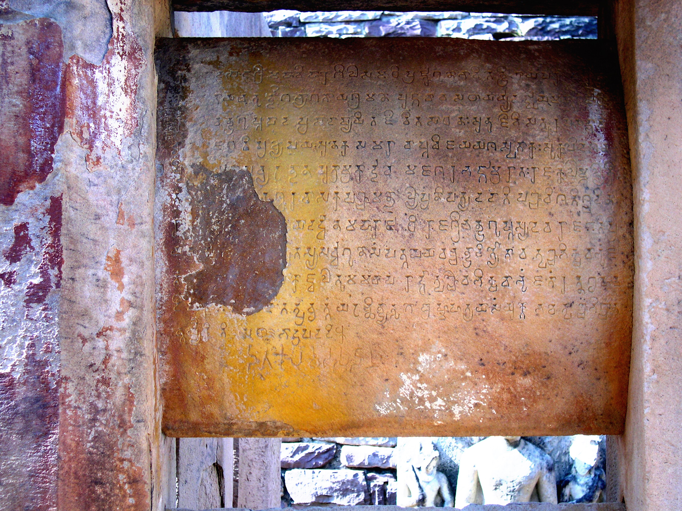 Inscription of Candragupta II located at Sanchi, Madhya Pradesh, India.